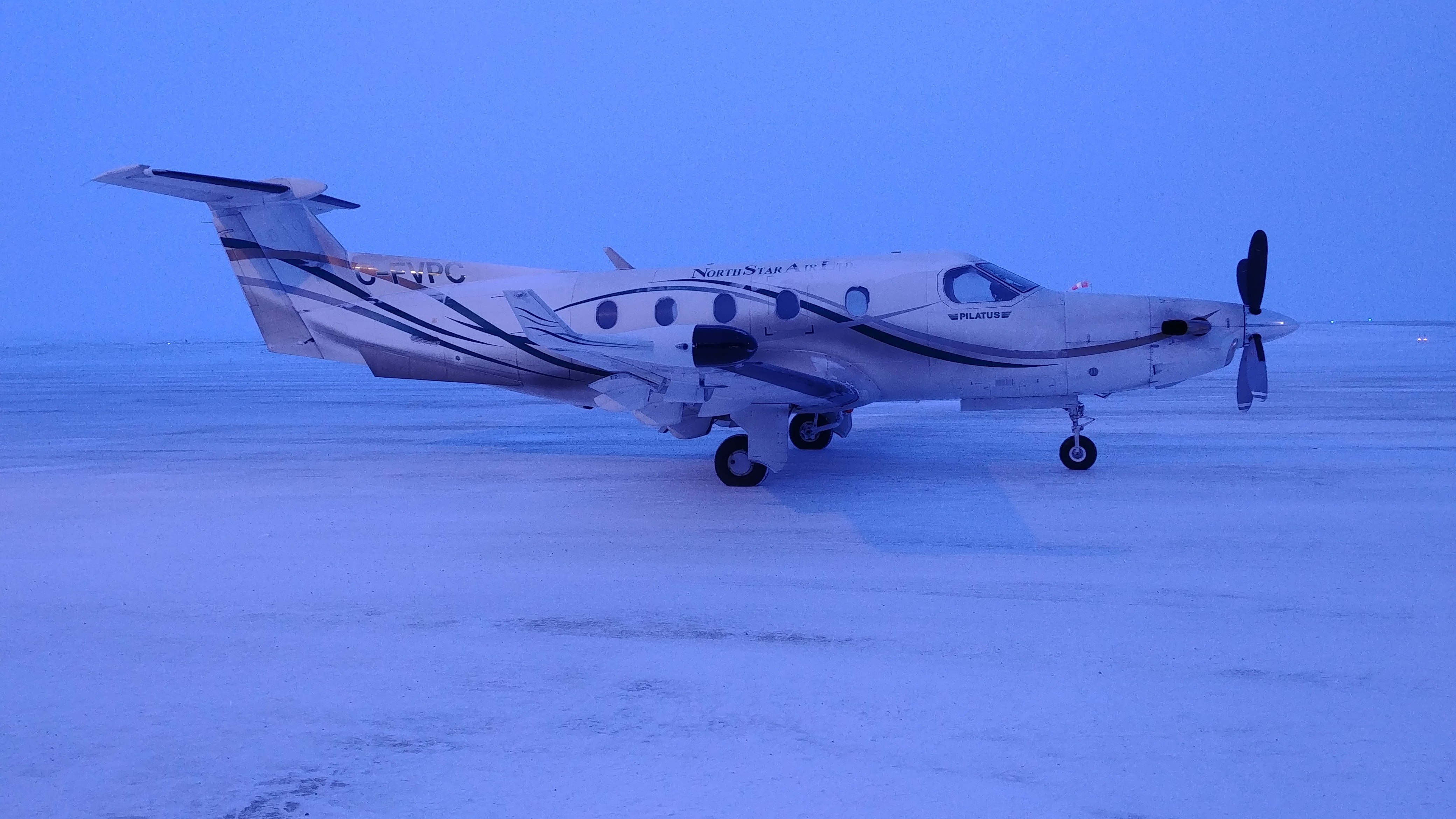 C-FVPC Pilatus PC12 of North Star Air at Cambridge Bay Airport